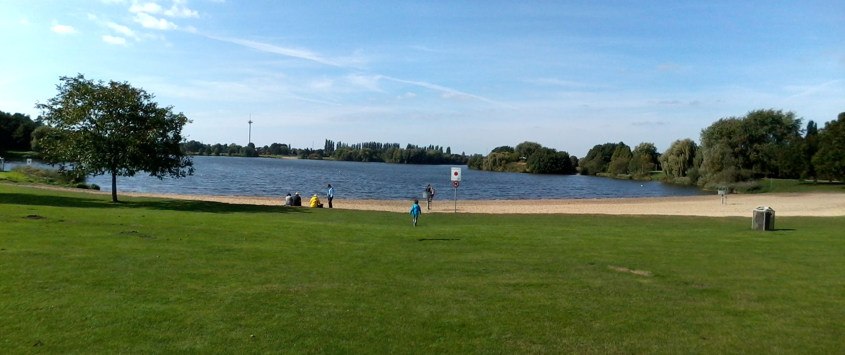 Panorama photo from the beach area of ​​the Aasee (lake) in Bocholt, Germany.